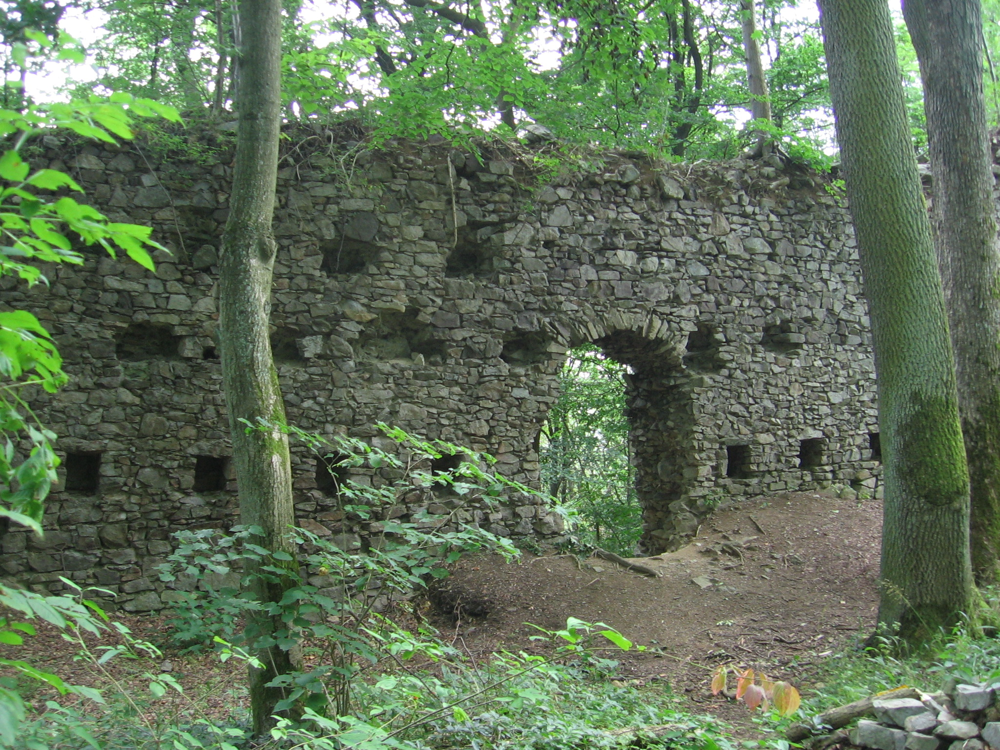 Castle (ruin) Nový Herštejn